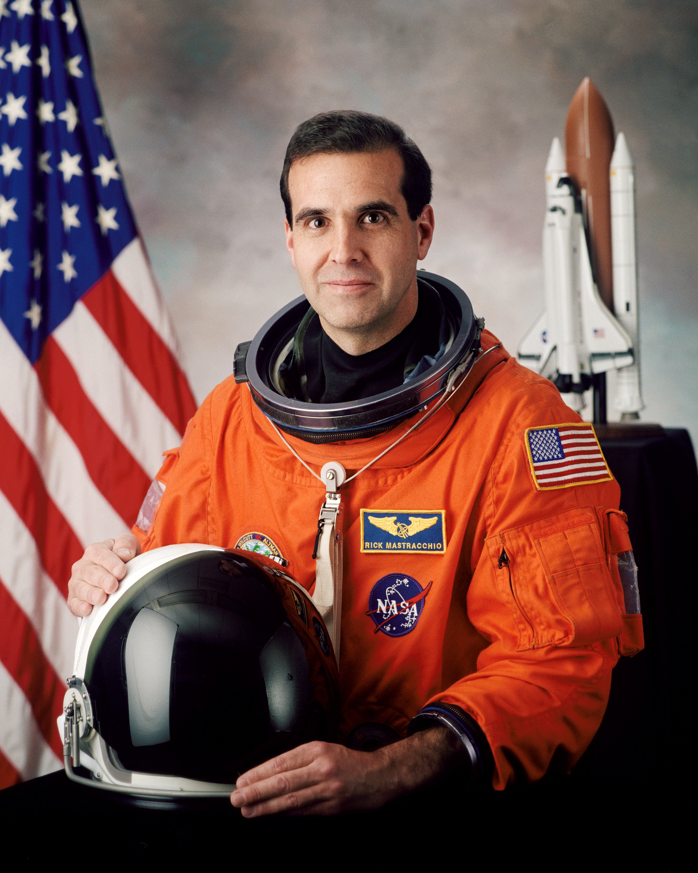 Astronaut Richard A. (Rick) Mastracchio, mission specialist.